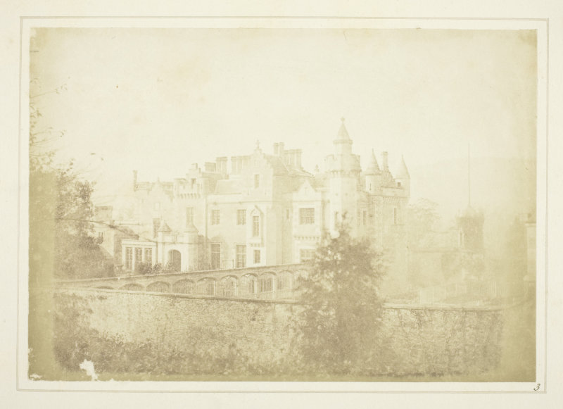 Salted paper print by Henry Fox Talbot, plate III from the album "Sun Pictures in Scotland" (1845)